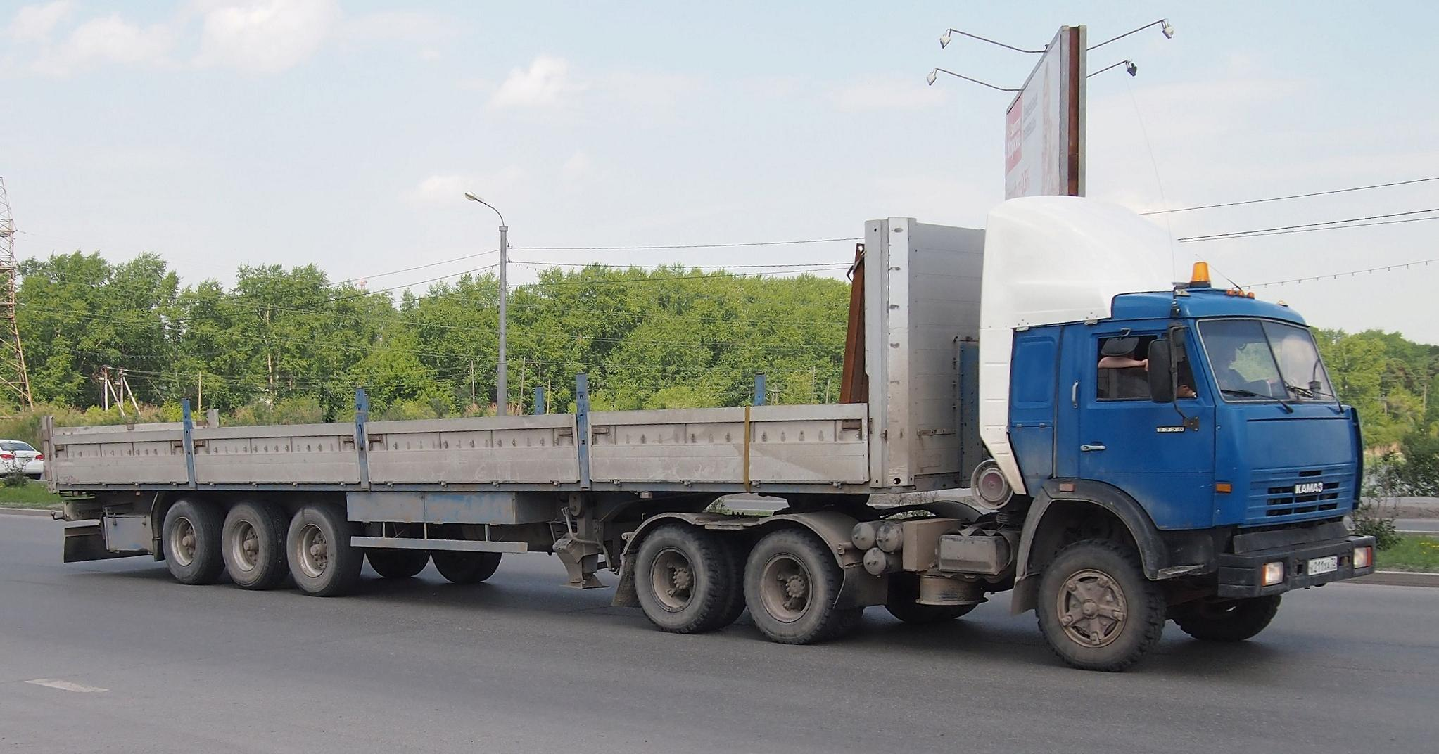 KAMAZ-54115 in Tyumen (Russia)